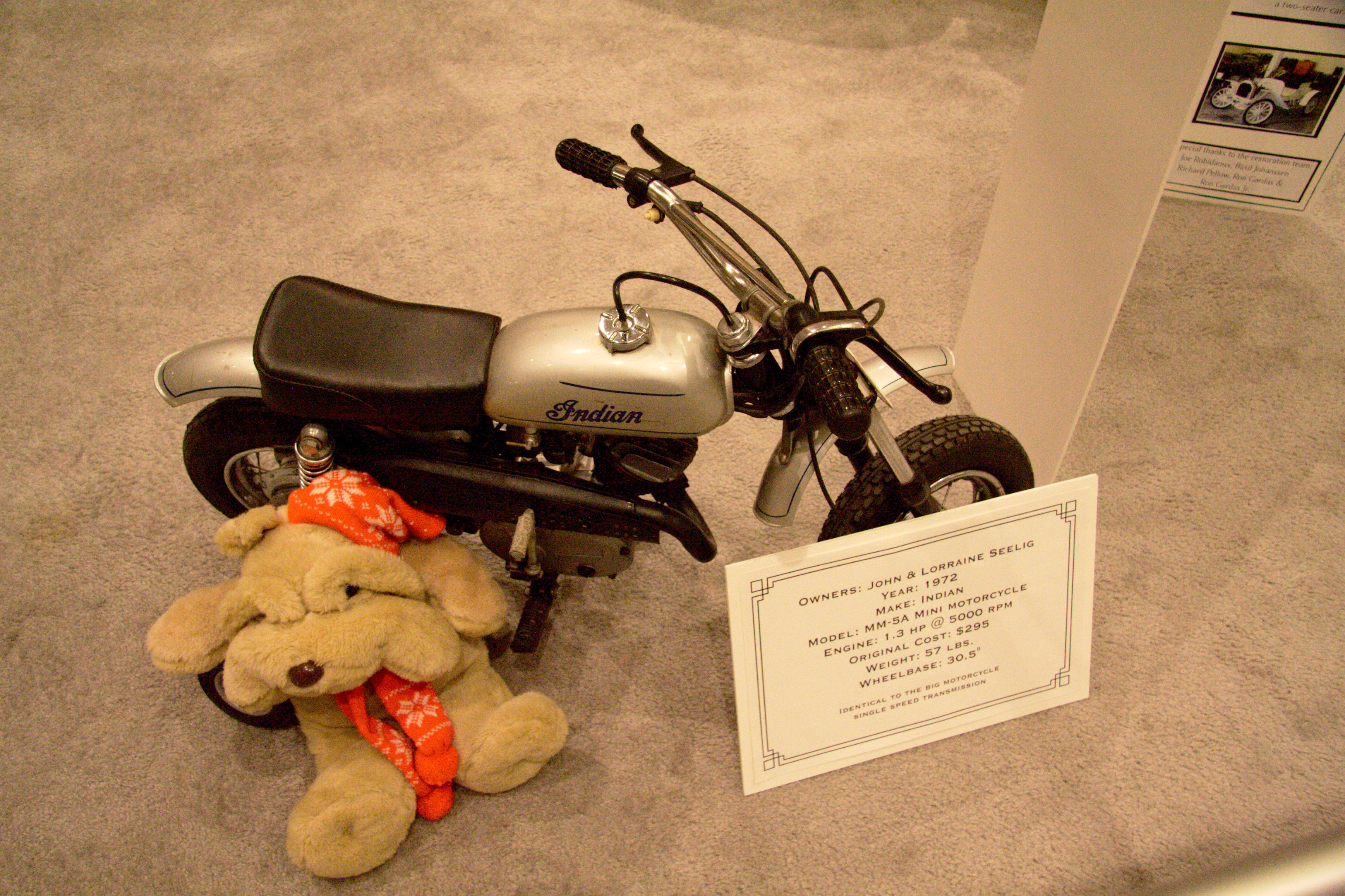 1972 Indian MM-5A mini motorcycle.